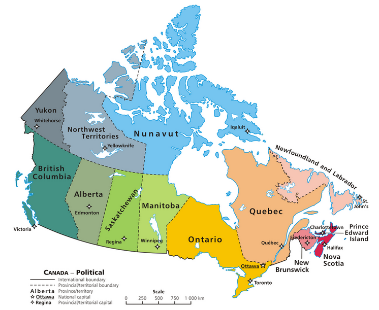 Image of the administrative division of Canada